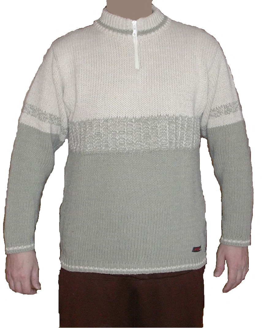 sweater - clothes for winter